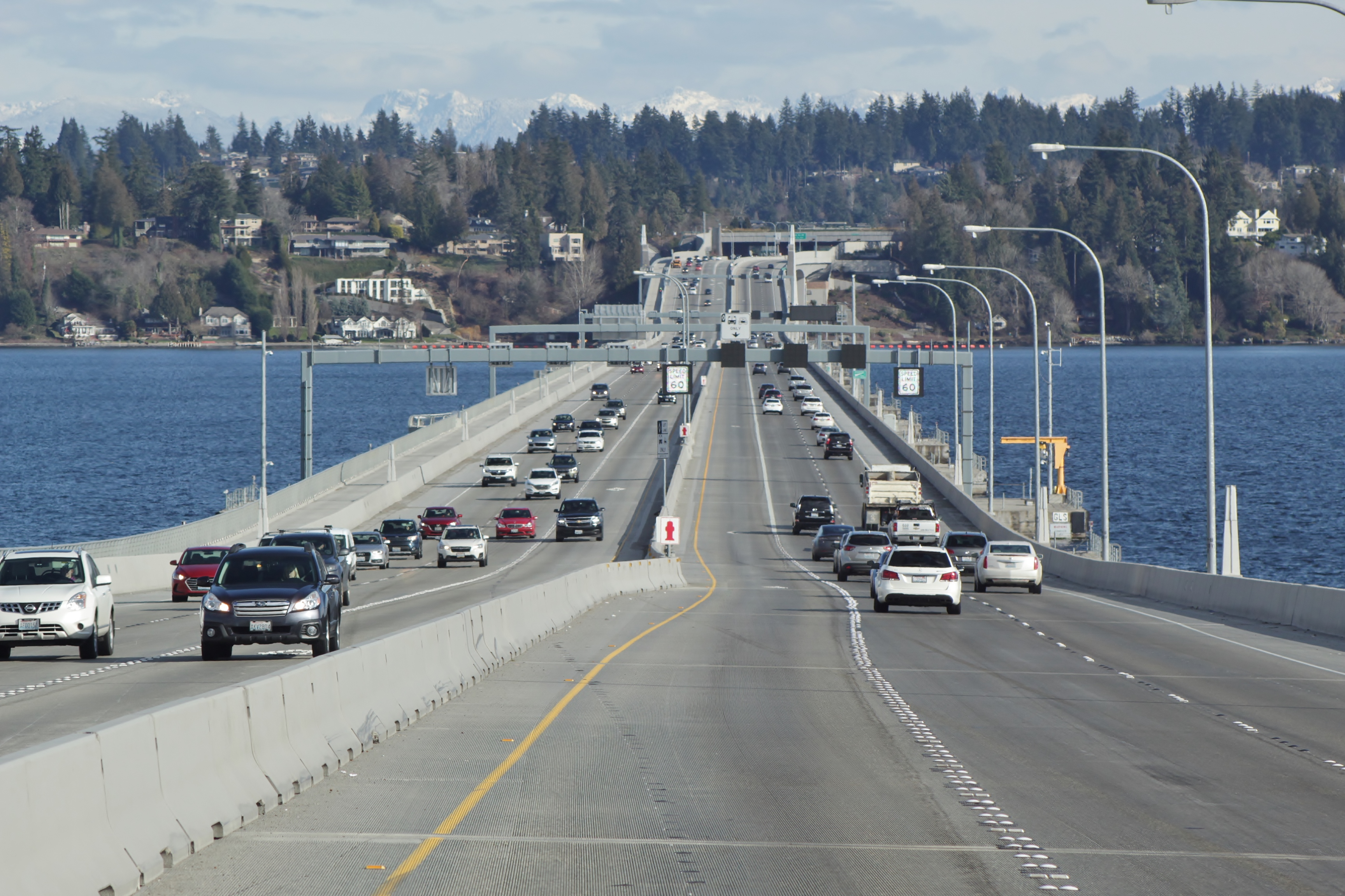 Looking eastbound on the Evergreen Point Floating Bridge (Washington State Route 520) on Lake Washington in Seattle, Washington, United States.